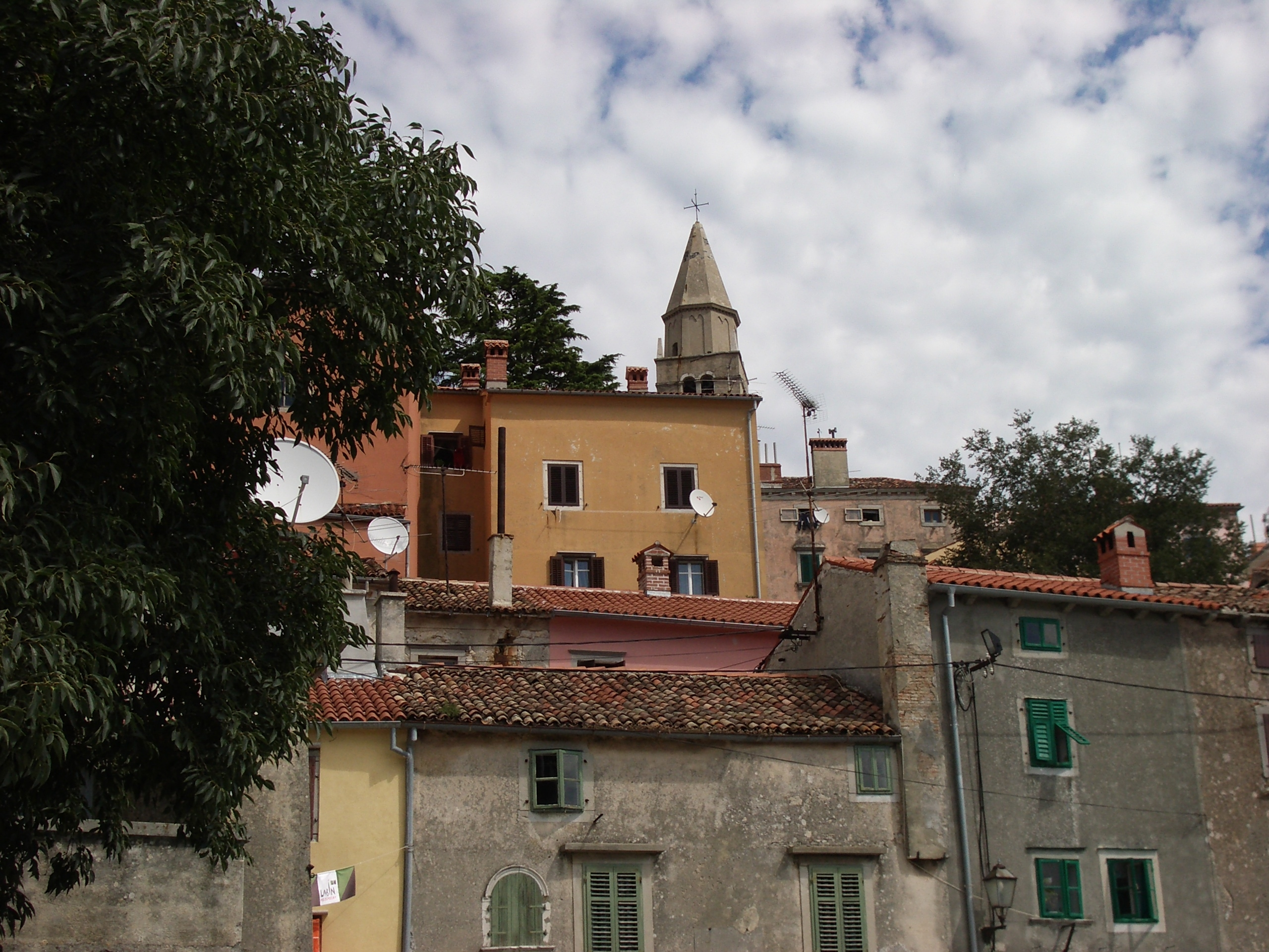 Houses on Labin, city of Istria, region in Croatia.